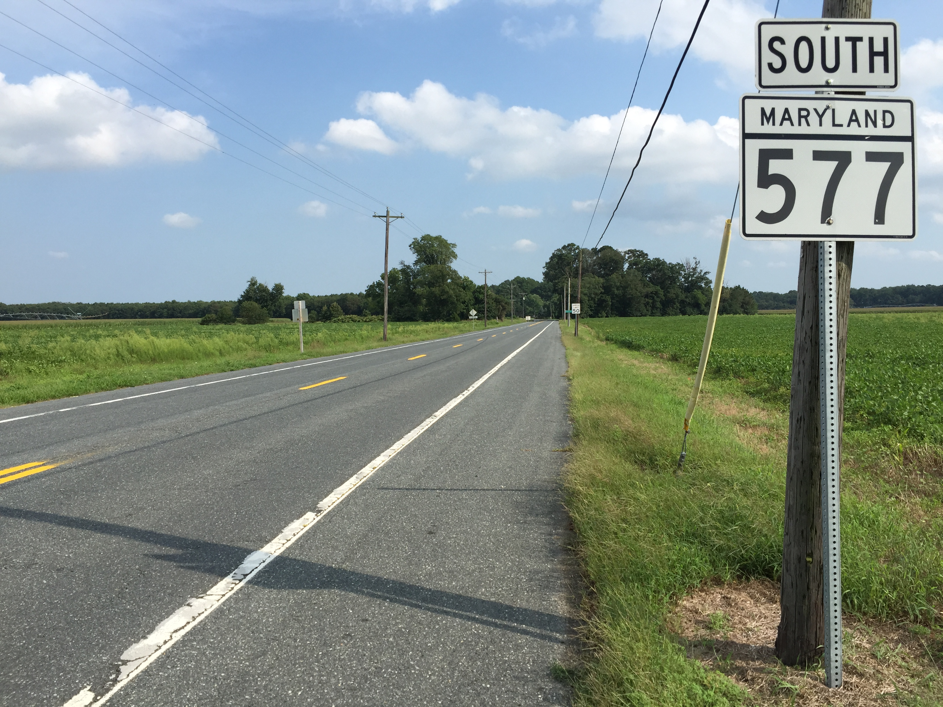 View south along Maryland State Route 577 (Reliance Road) at Maryland State Route 313 (Eldorado Road) in Allens Corner on the border of Caroline County, Maryland and Dorchester County, Maryland